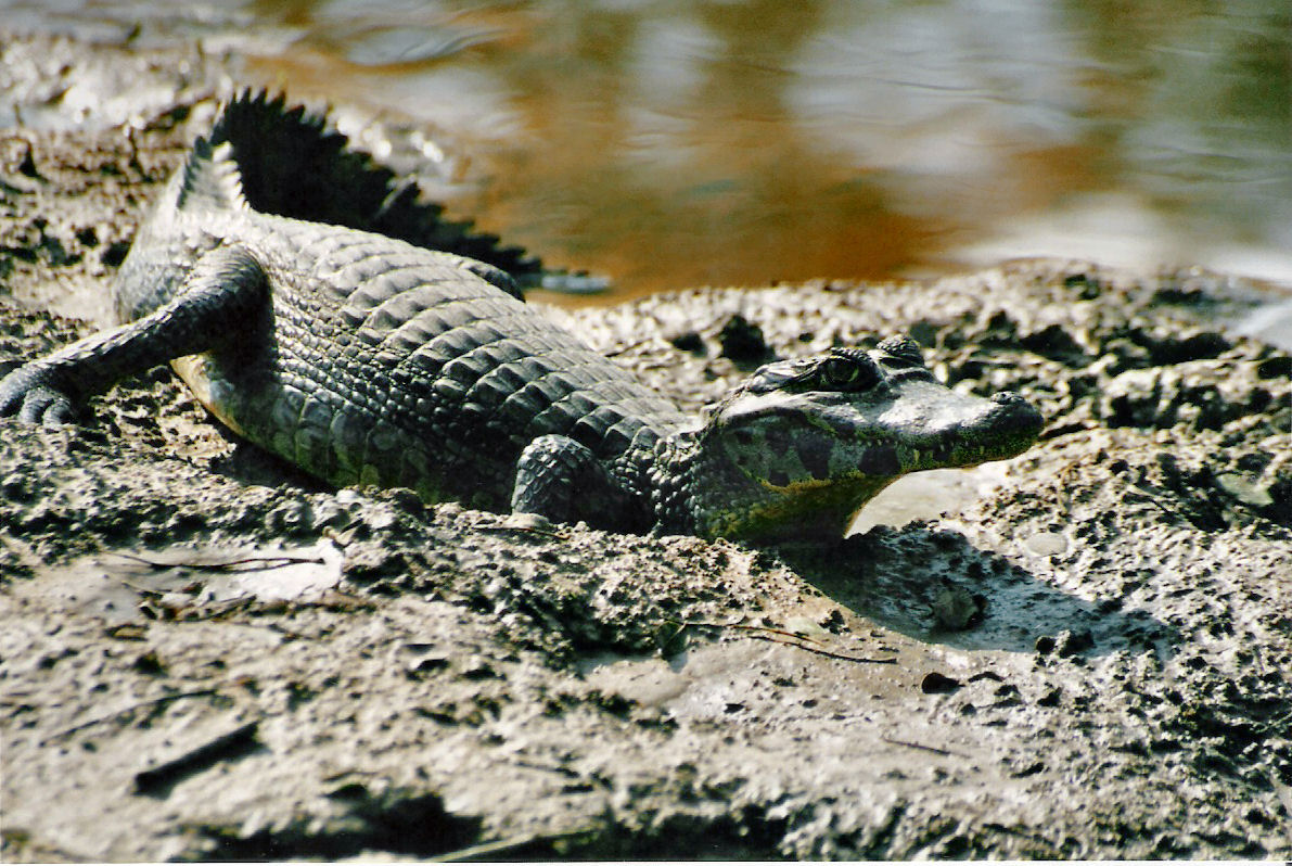 Caiman (Caiman yacare). Photographed in Argentina by Lea Maimone.